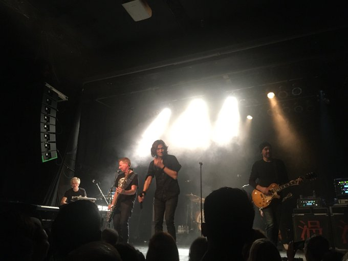 Moist performing at the Phoenix Concert Theatre in Toronto on November 22, 2019.